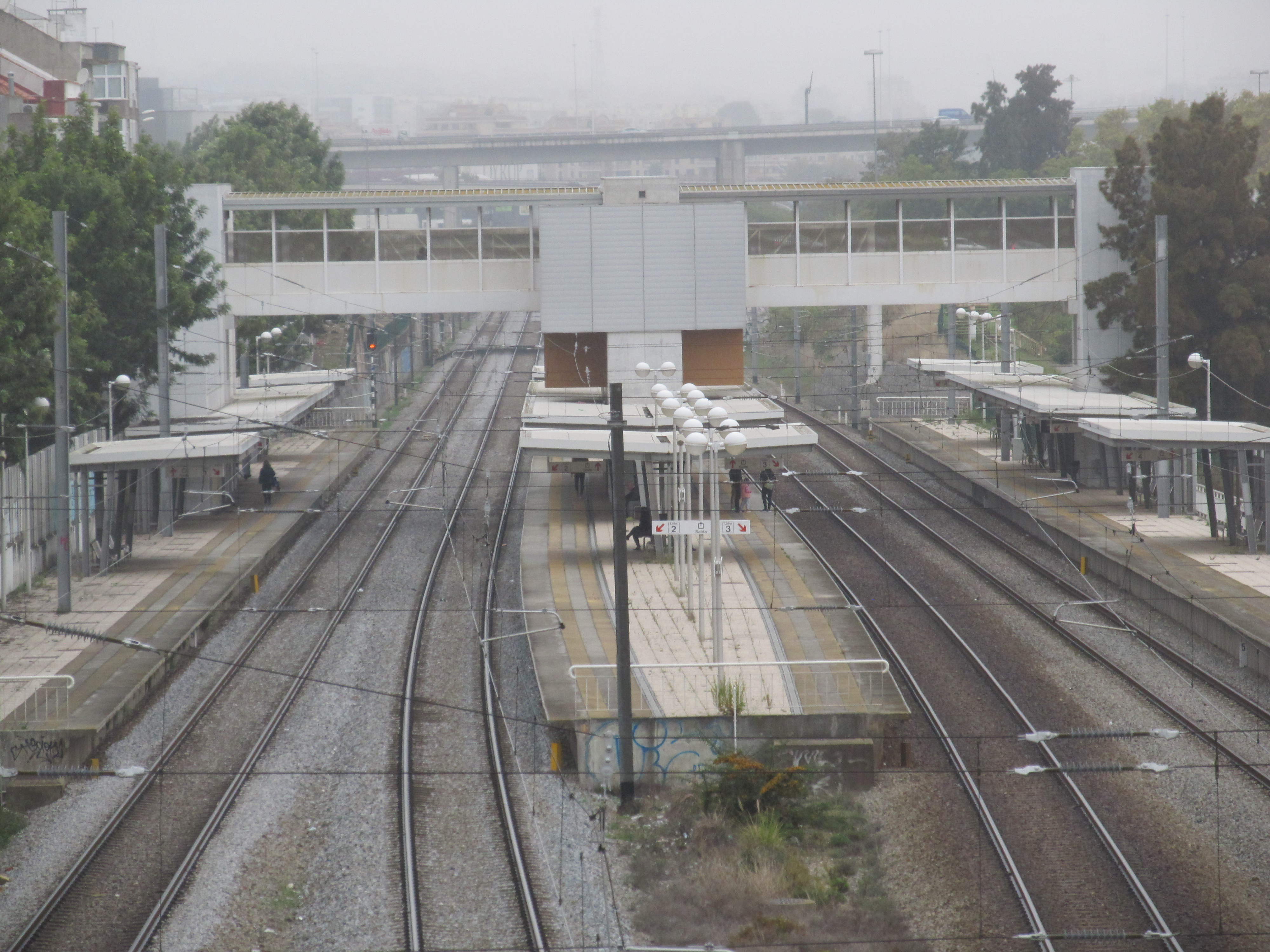 Moscavide train station in Lisbon, on the Linha do Norte (Northern Line).